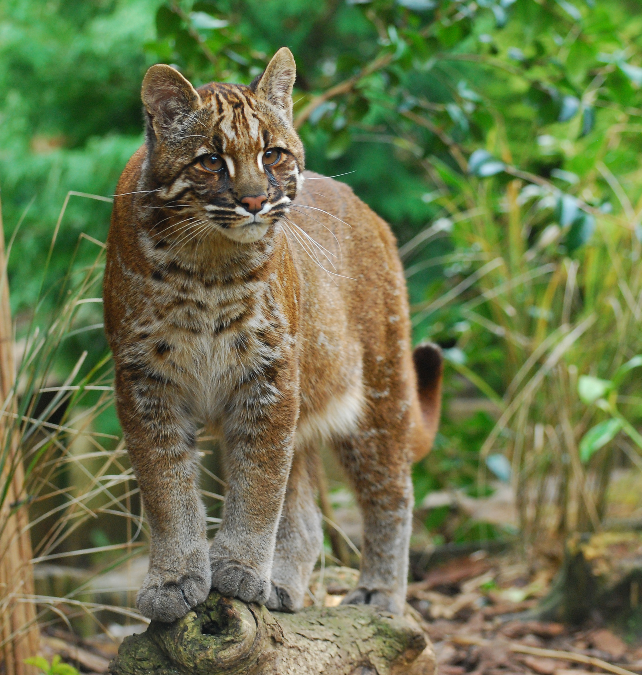 The Asian golden cat is a medium-sized wild cat, typically weighing about 25 – 35 lbs. Its average length is about 4 feet including its tail. The Asian golden cat ranges from the lowlands of Southeast Asia up into the Himalayas, sometimes up to 3,000 metres. Its range includes parts of Bangladesh, Cambodia, India, Indonesia, Malaysia, Myanmar, Nepal, Thailand, and Viet Nam. The beautiful coat of the Asian golden cat ranges from a dark orangey red to a golden brown, and is thick and coarse. Depending on the geographical location, Asian golden cats may have light spots on the underside; in China, they have darker rosettes all over the coat, similar to those of the leopard cat. Asian golden cats are mainly nocturnal although sometimes they appear during the day as well. They are opportunistic predators, eating ground birds, rodents, reptiles, and other small-to-medium prey. The Asian golden cat is listed by the International Union for Conservation of Nature and Natural Resources (IUCN) as Near Threatened. Threats to the Asian golden cat include habitat loss due to deforestation, indiscriminate snaring, and illegal trade in its pelt and bones. In Southeast Asia, it is also threatened by falling numbers of prey animals